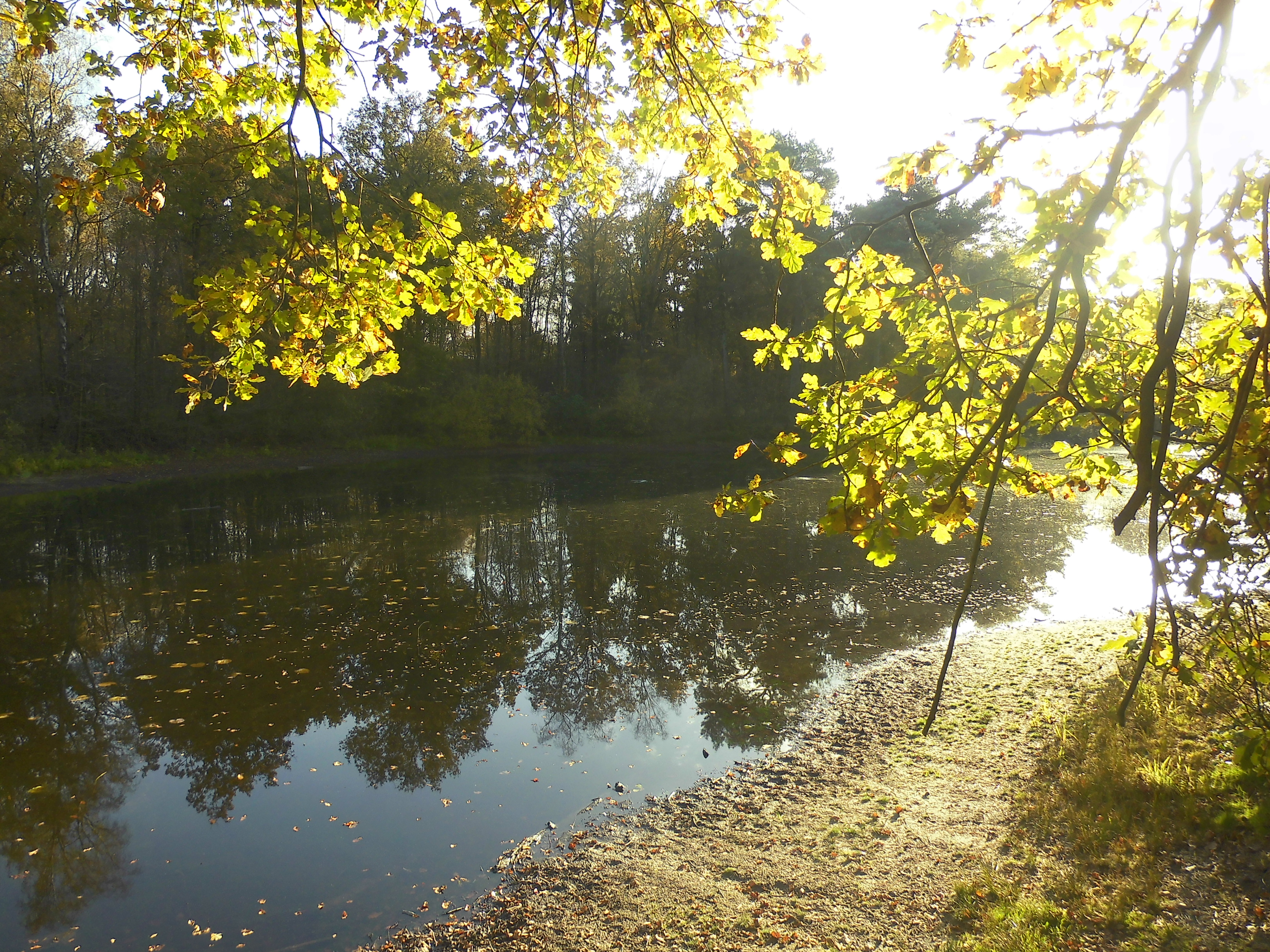 The bord of the "Kranenmeer" in the "Kranenmeer" nature resurce area in Heiden. Taken in the sunlight of november